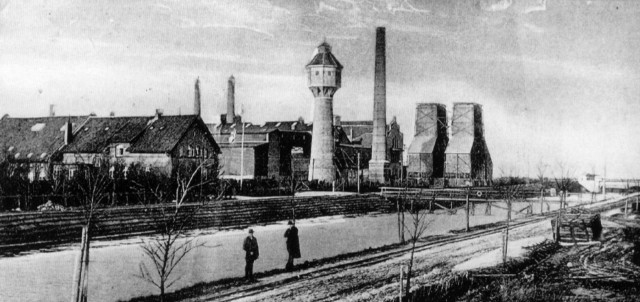 Peat-fired power plant in Wiesmoor, Germany